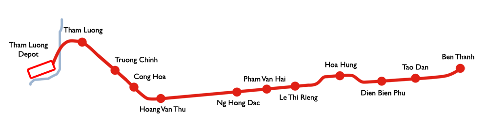 Map of the projected Line 2 of the HCMC Metro, including stations. This file replaces a version uploaded to the English Wikipedia.